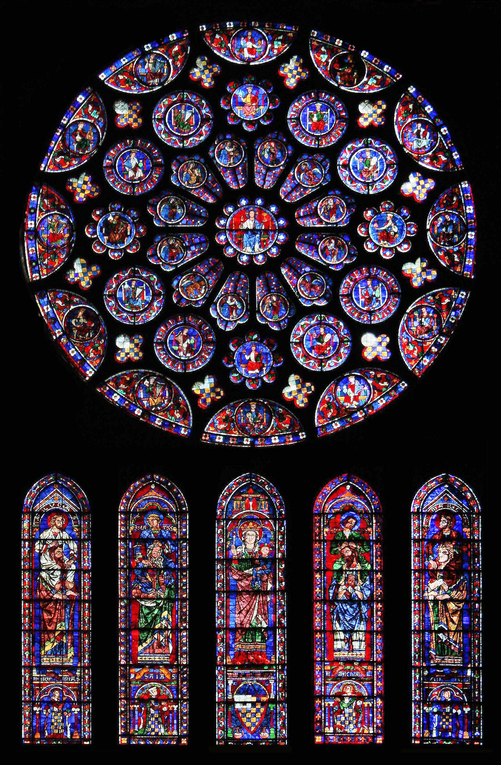 South rose window of Cathédrale Notre-Dame de Chartres with Gothic stained glasses.